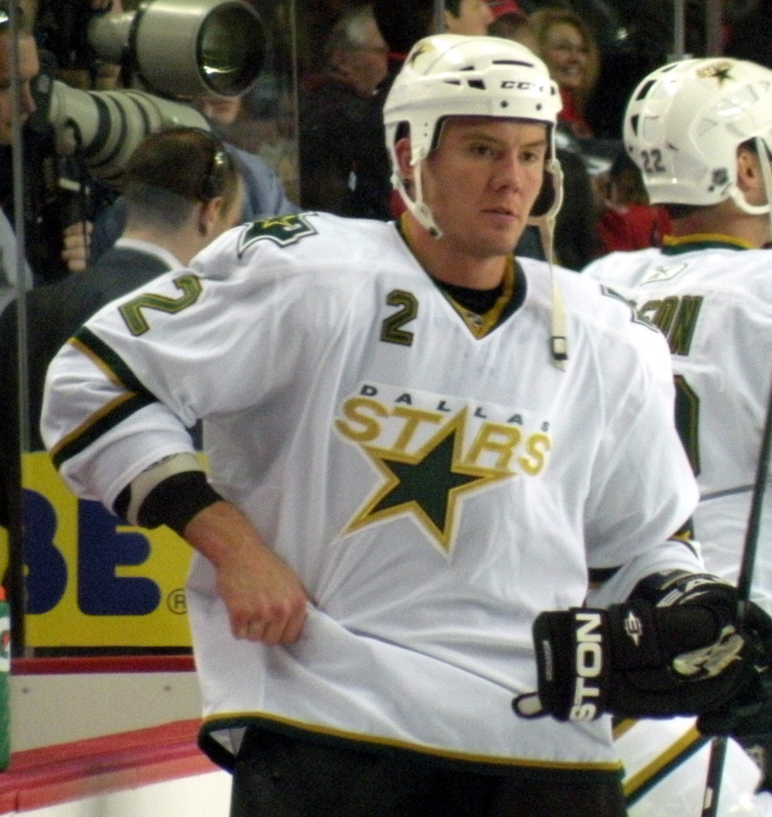 Dallas Stars defenceman Nicklas Grossmann during warm-up prior to a National Hockey League game against the Calgary Flames, in Calgary.